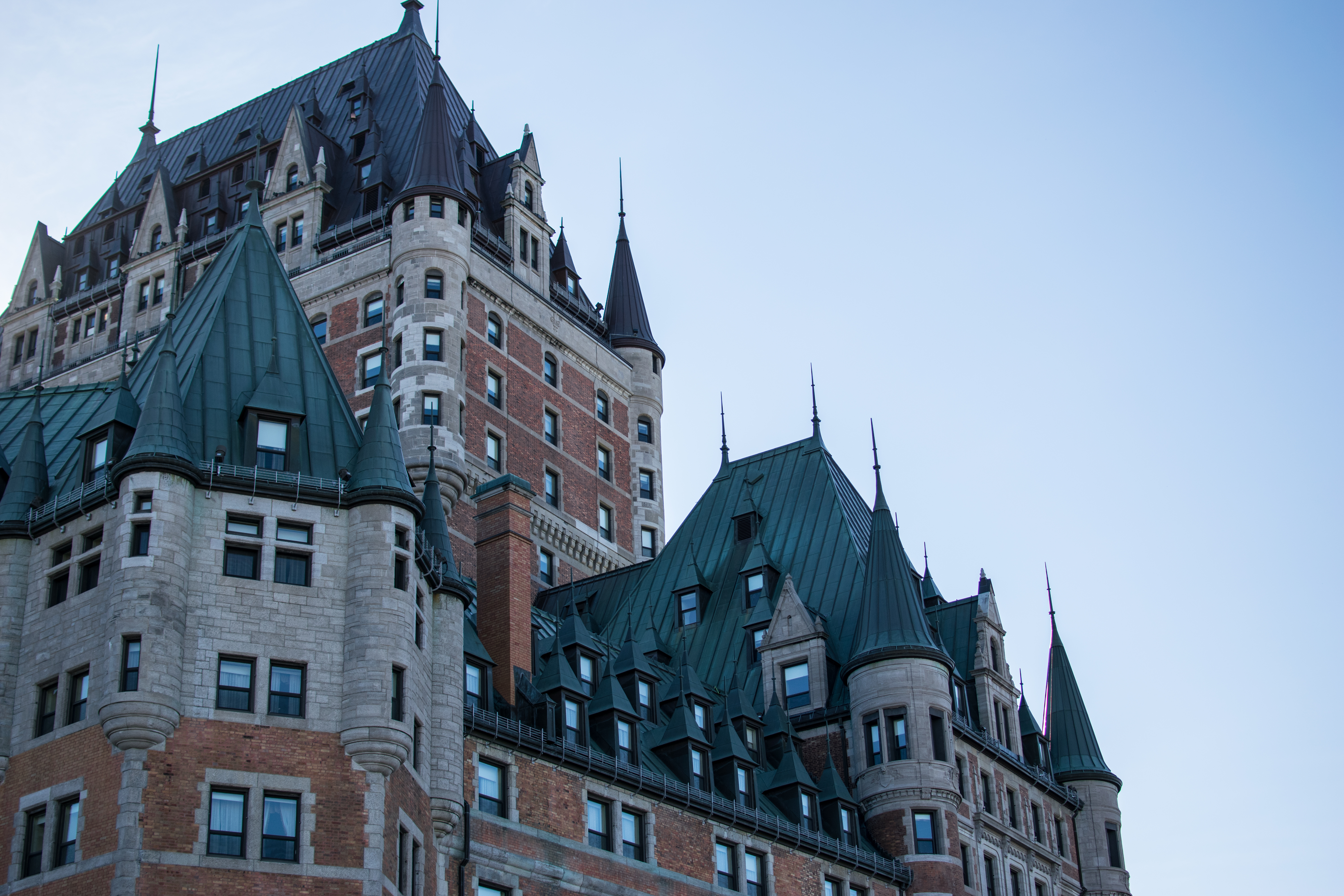 The Château Frontenac in Quebec City, Quebec, Canada.